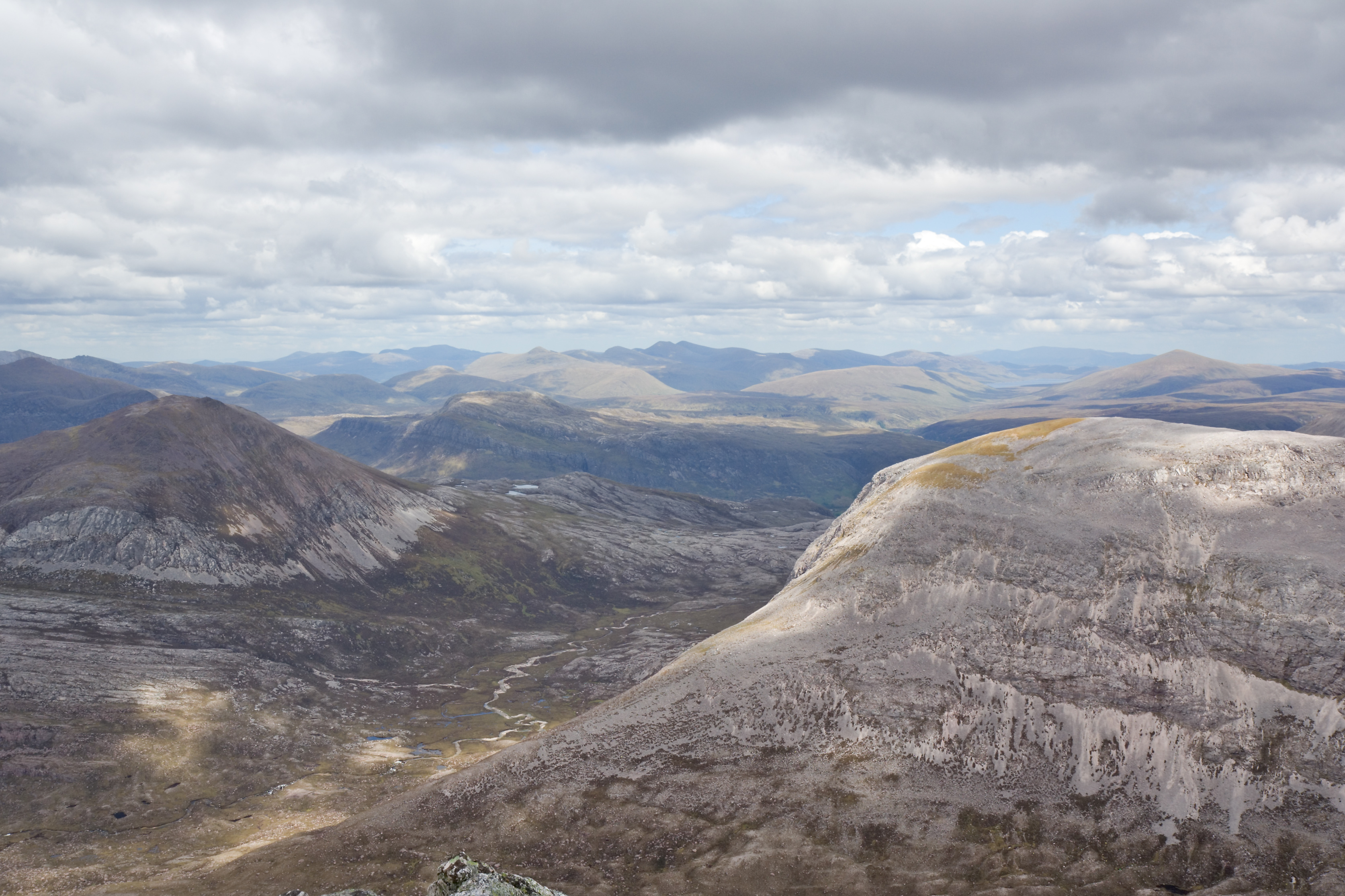 View from the top of Ruadh-stac Mór to the north east; Scottish Highlands, Scotland